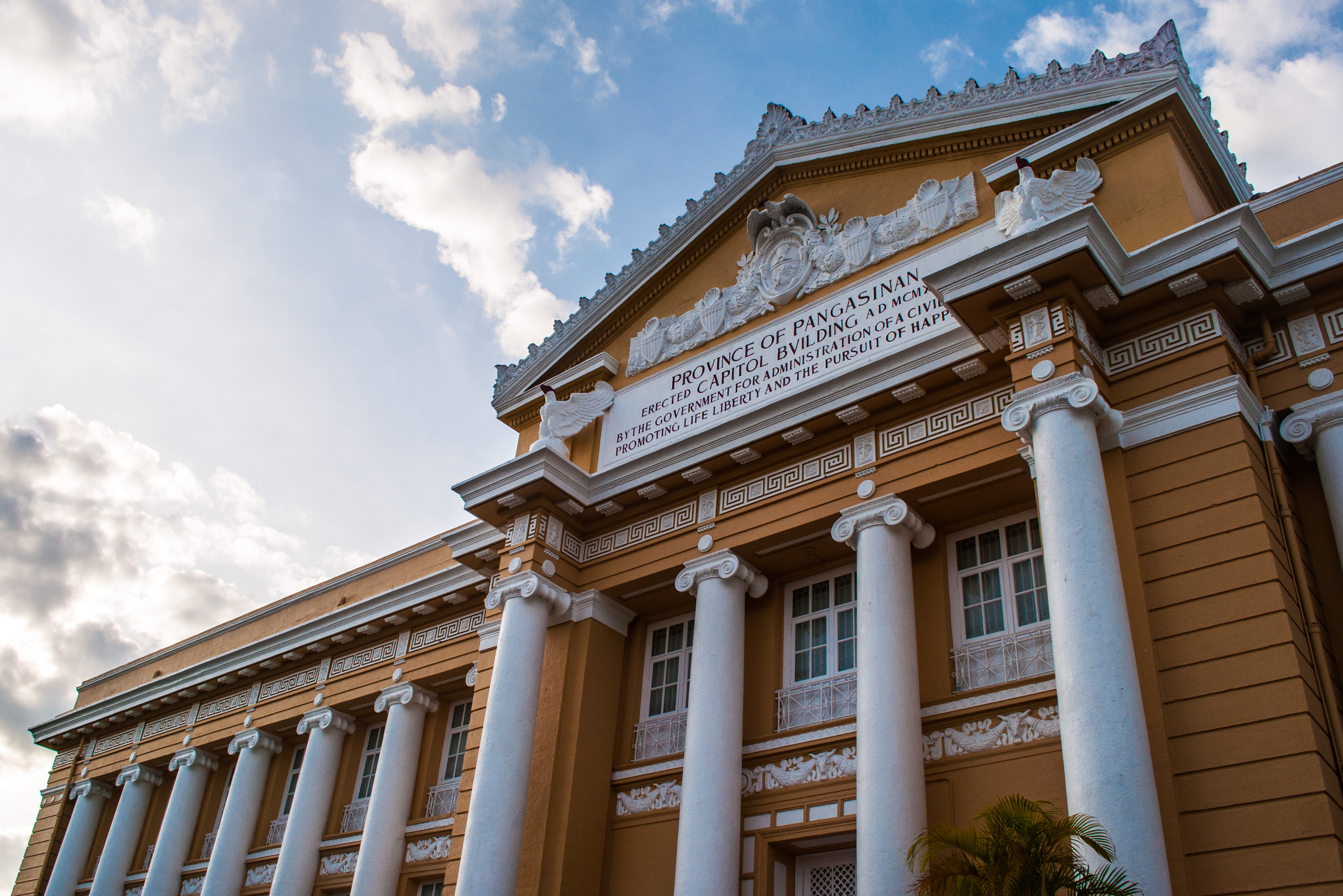 Provincial Capitol Building. Originally built in 1918 by American architects.